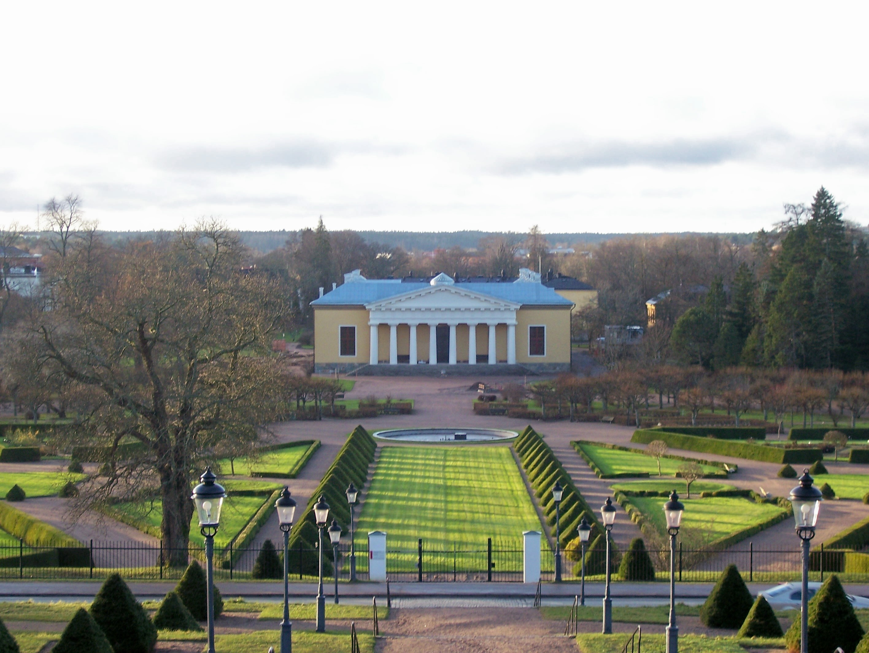 otanical gardens of Uppsala University with Neoclassical orangerie — in Uppsala, Sweden. As viewed from Uppsala Castle (Uppsala Slott).